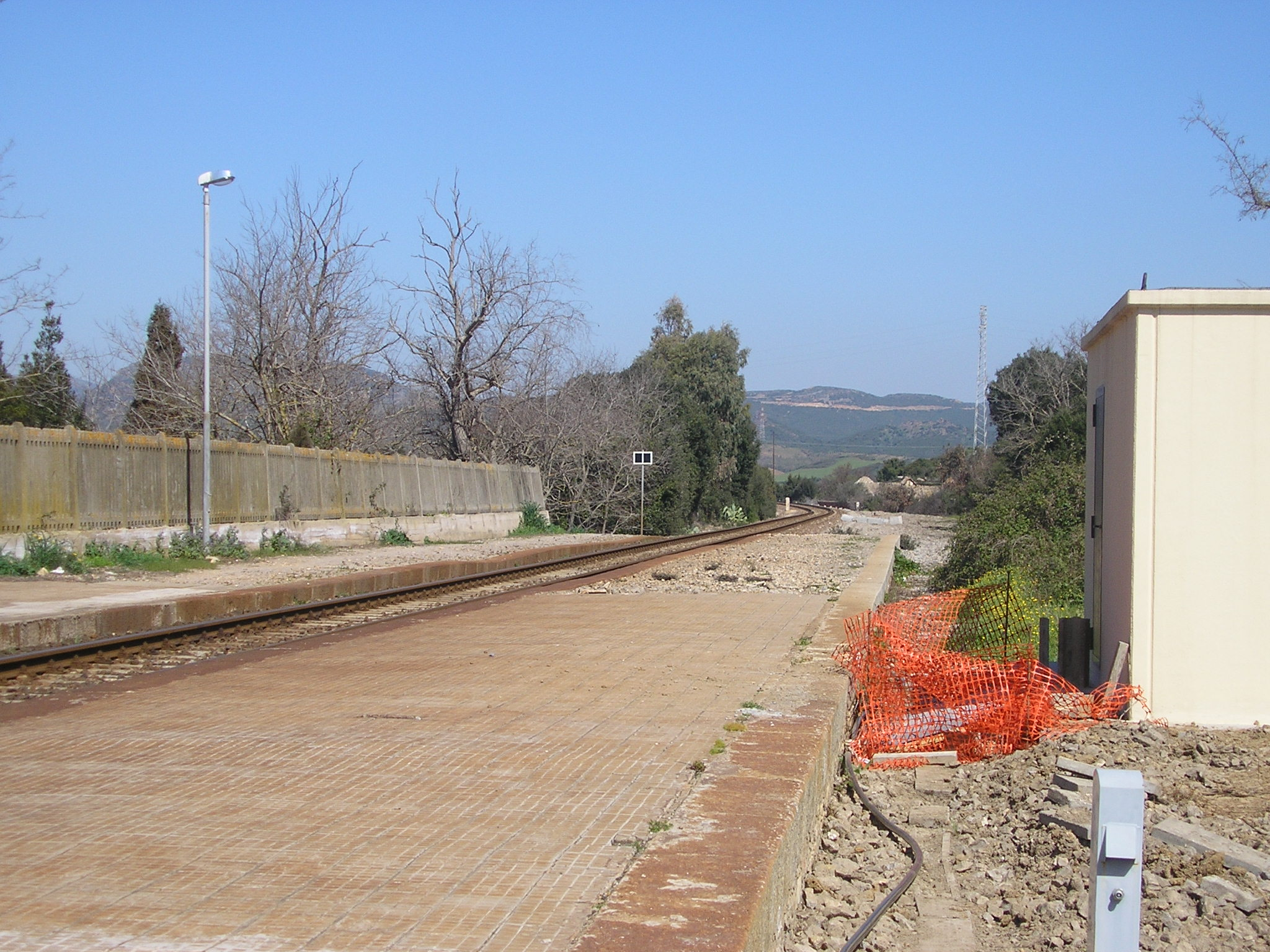 Railtrack of the Villamassargia-Carbonia Stato railway in Sardinia, Italy. Shot done in the Barbusi halt looking in Villamassargia direction